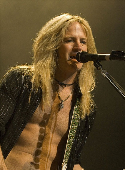 Doug Aldrich performing live with Whitesnake on May 9th, 2008.